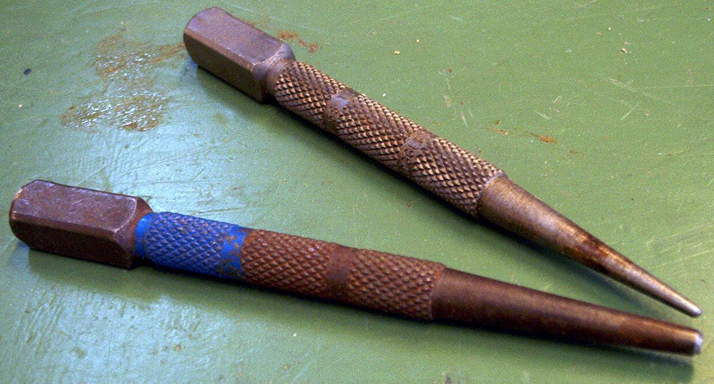 Center punch.